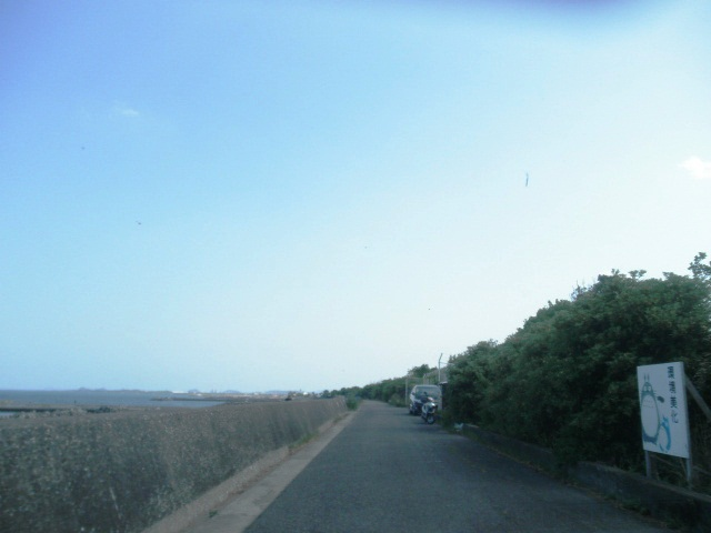 Nakagawatown Enojima Anancity Tokushimaprtef Tokushimaprefect road 402 Anan Tokushima line bike path